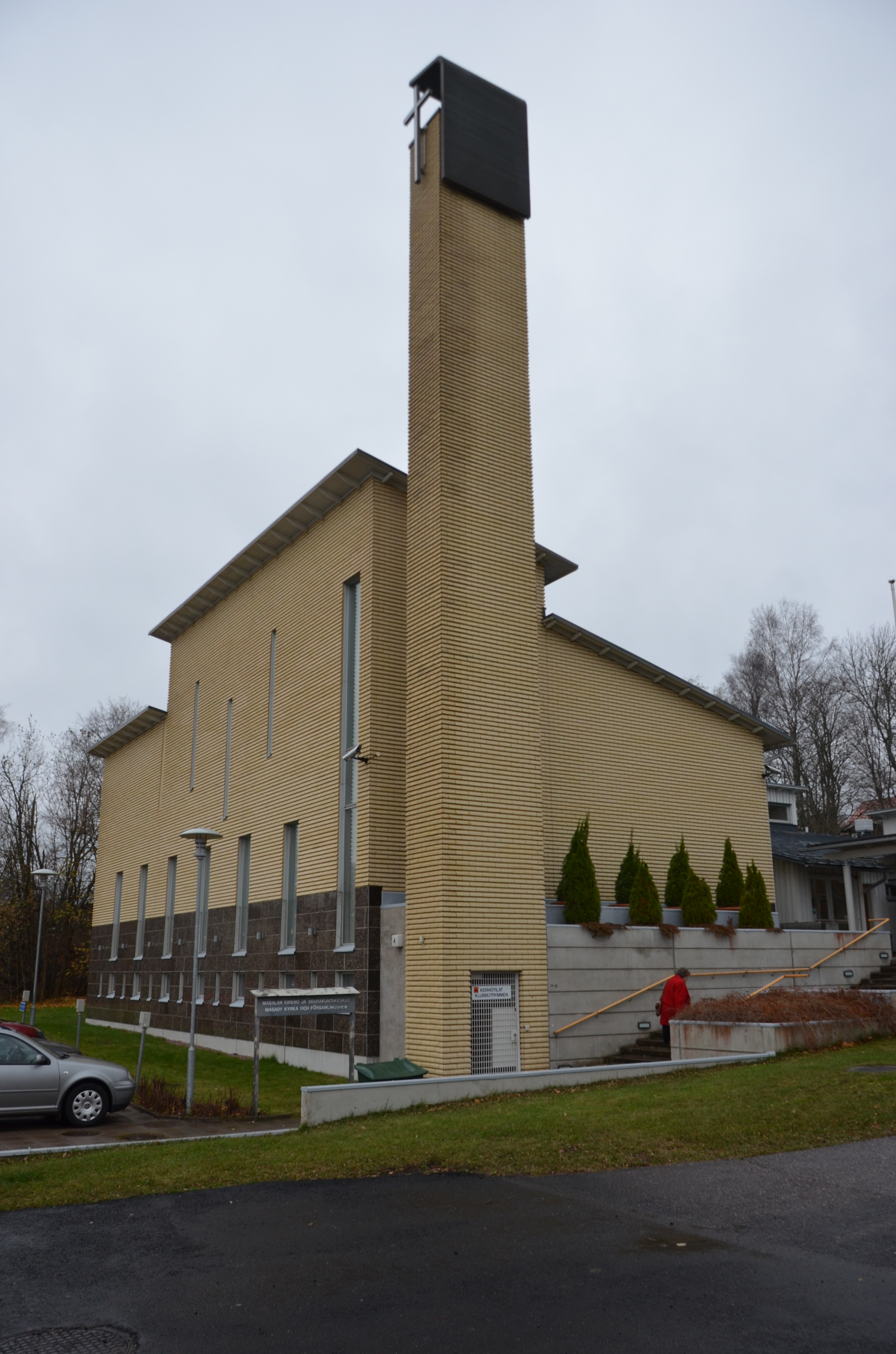 Masaby kyrka, Kyrklätts kommun